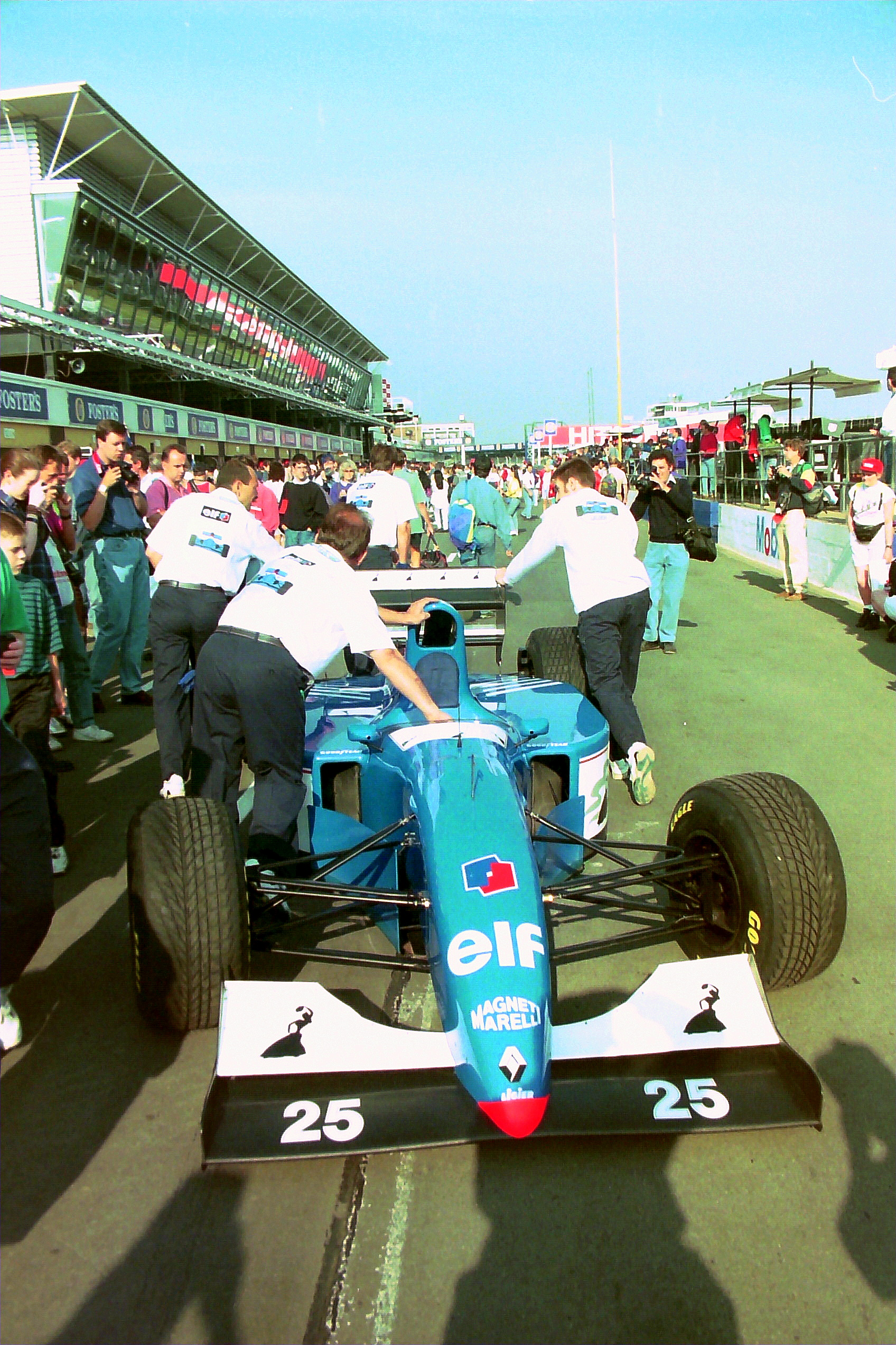 Ligier JS39B in the pitlane at the 1994 British Grand Prix